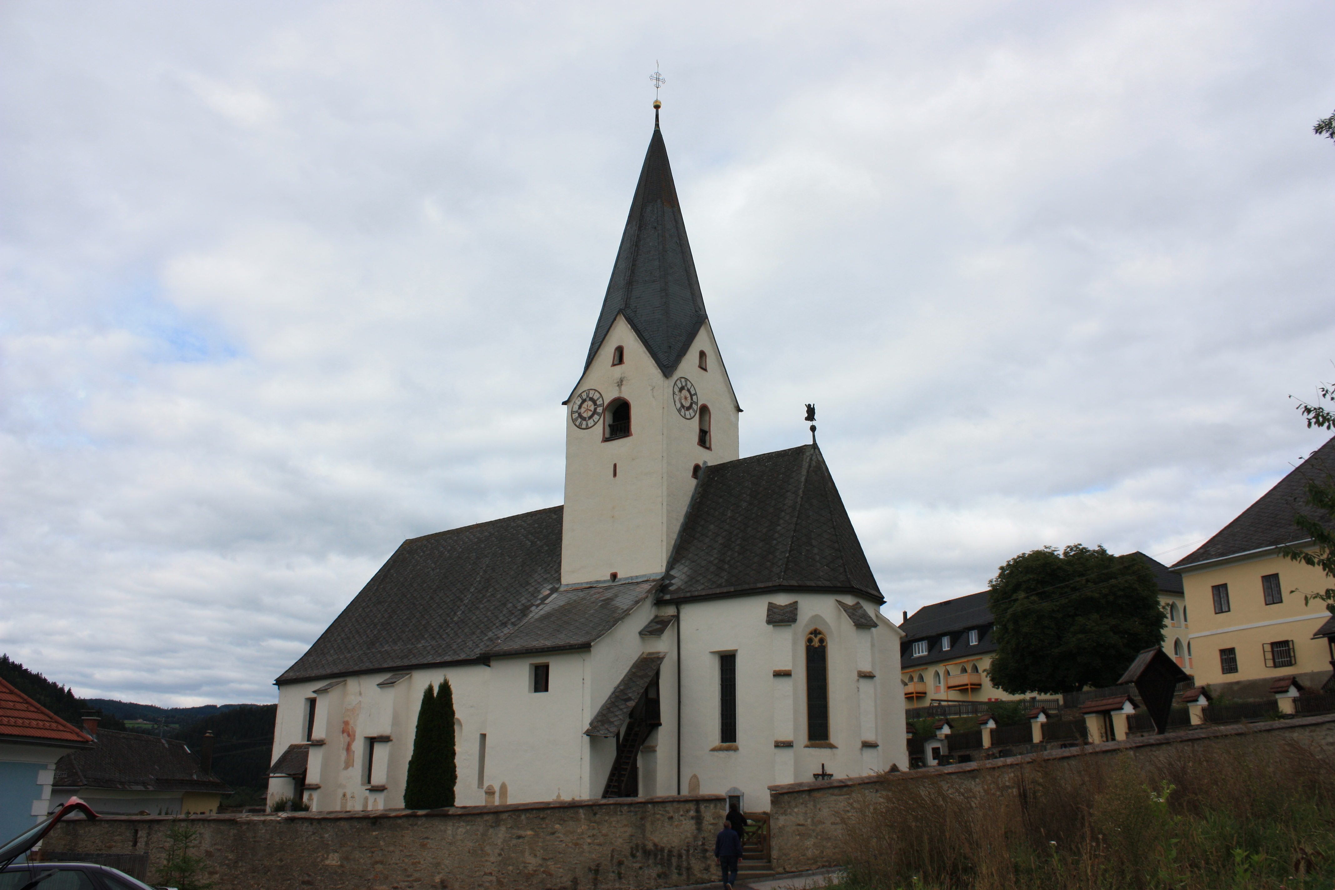 Parish church in Meiselding Locality:Meiselding Community:Mölbling